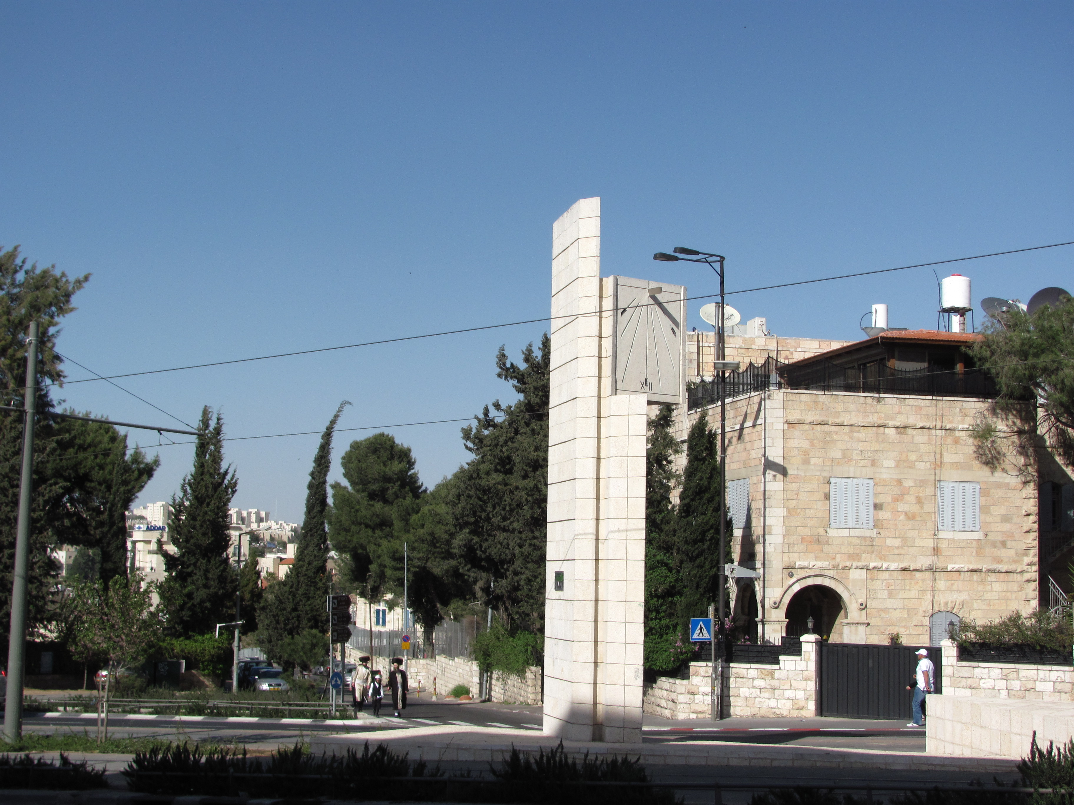 Sundial in the middle of Highway 60 at Shmuel HaNavi Street, marking the site of the Mandelbaum Gate crossing (1949-1967).